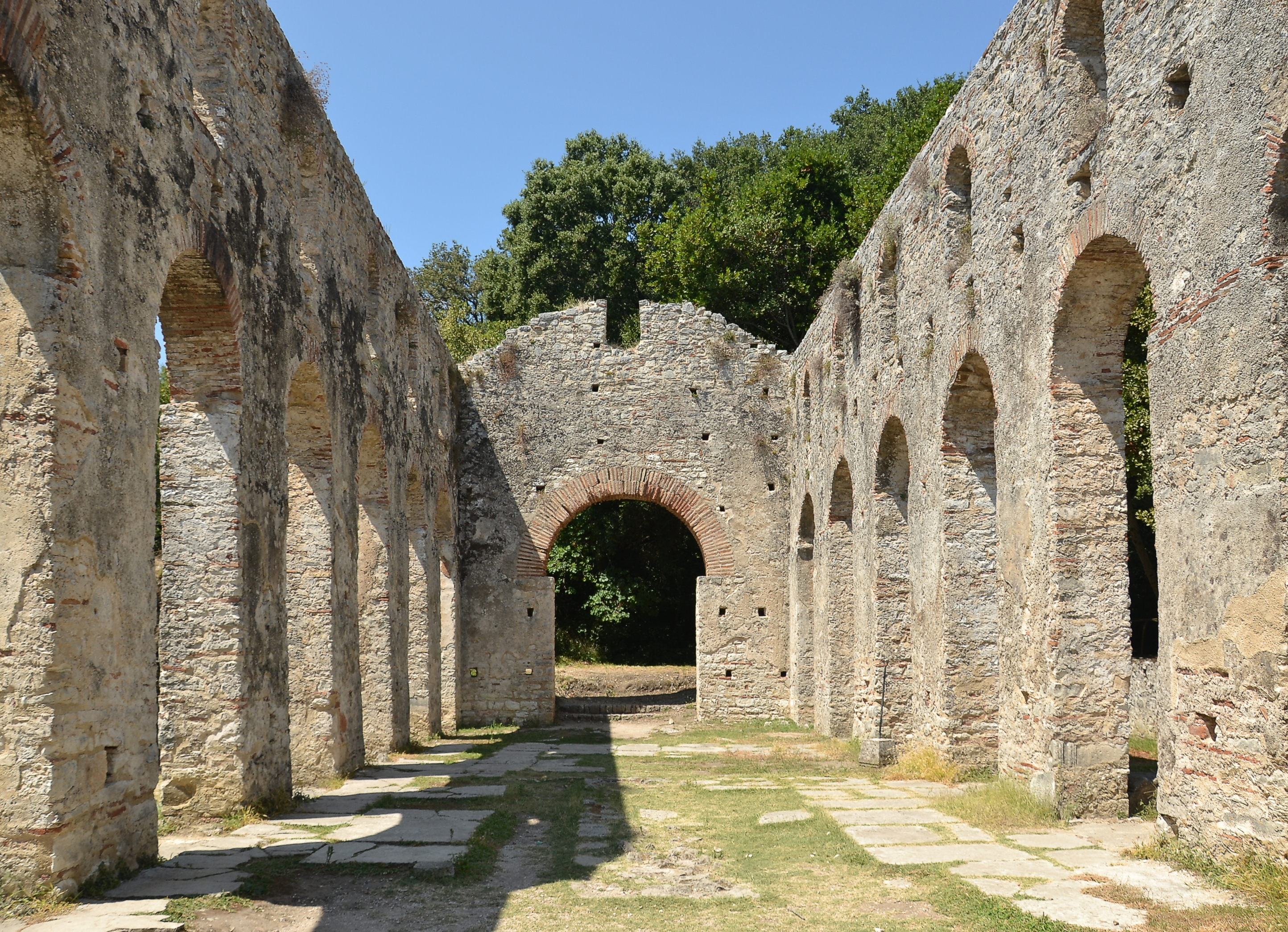 Butrint (Buthrotum) - The Great Basilica